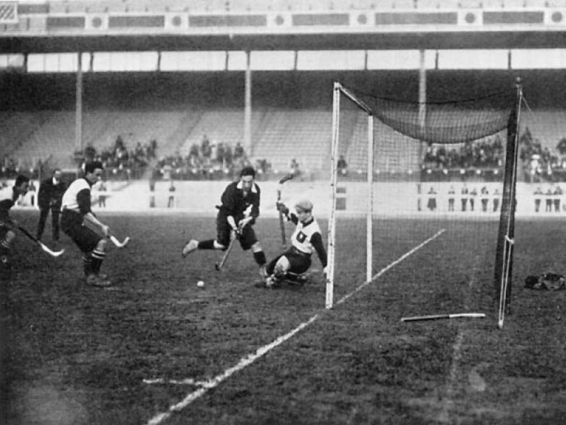 Scotland national hockey team scoring a goal against Germany, during the 1908 Summer Olympics held in London.